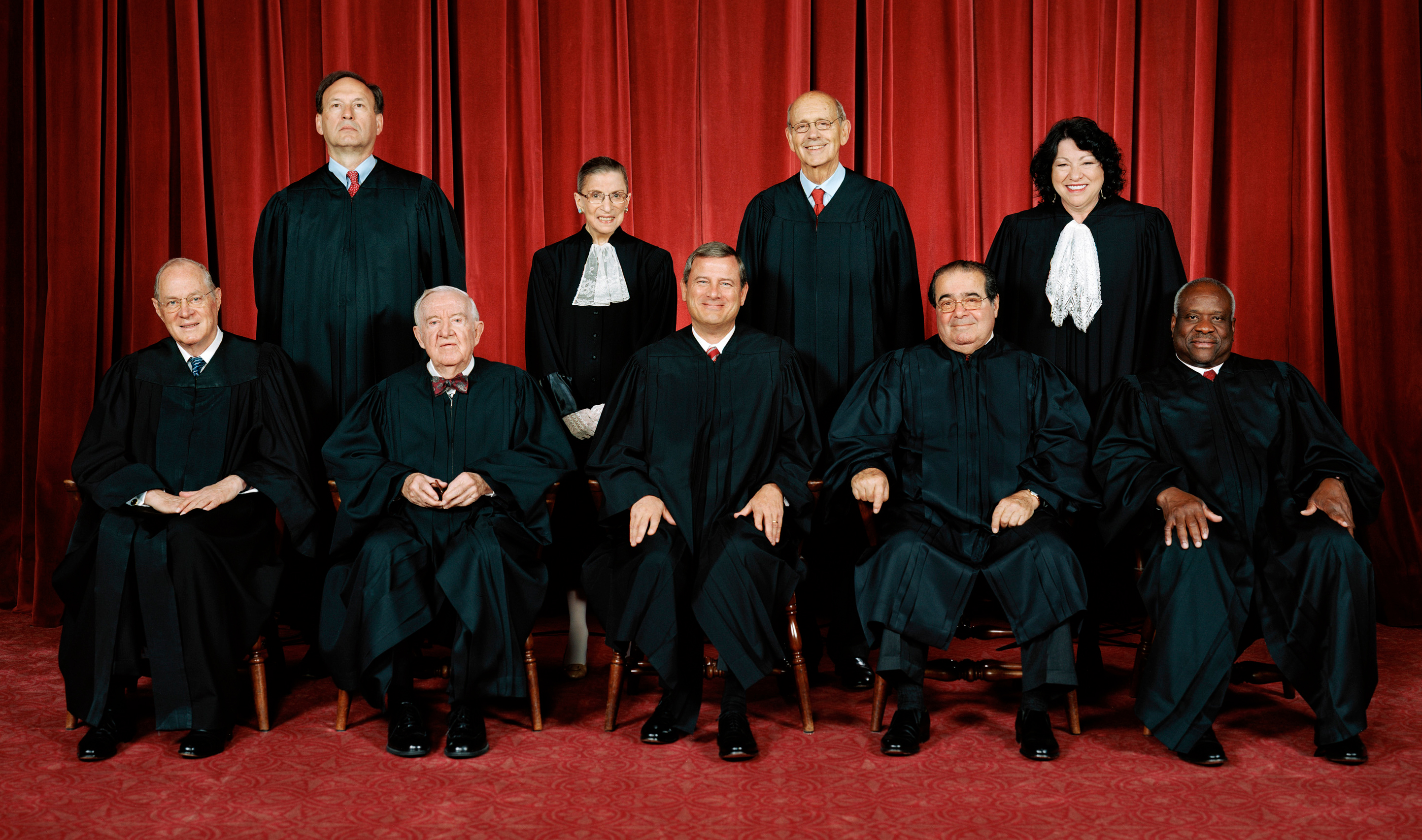 The United States Supreme Court, the highest court in the United States, in 2009. Top row (left to right): Associate Justice Samuel A. Alito, Associate Justice Ruth Bader Ginsburg, Associate Justice Stephen G. Breyer, and Associate Justice Sonia Sotomayor. Bottom row (left to right): Associate Justice Anthony M. Kennedy, Associate Justice John Paul Stevens, Chief Justice John G. Roberts, Associate Justice Antonin G. Scalia, and Associate Justice Clarence Thomas.